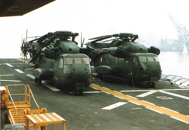 HMH-769 CH-53As 153302 'MS484' and 153285 'MS485' aboard USS Inchon May 10, 1986.